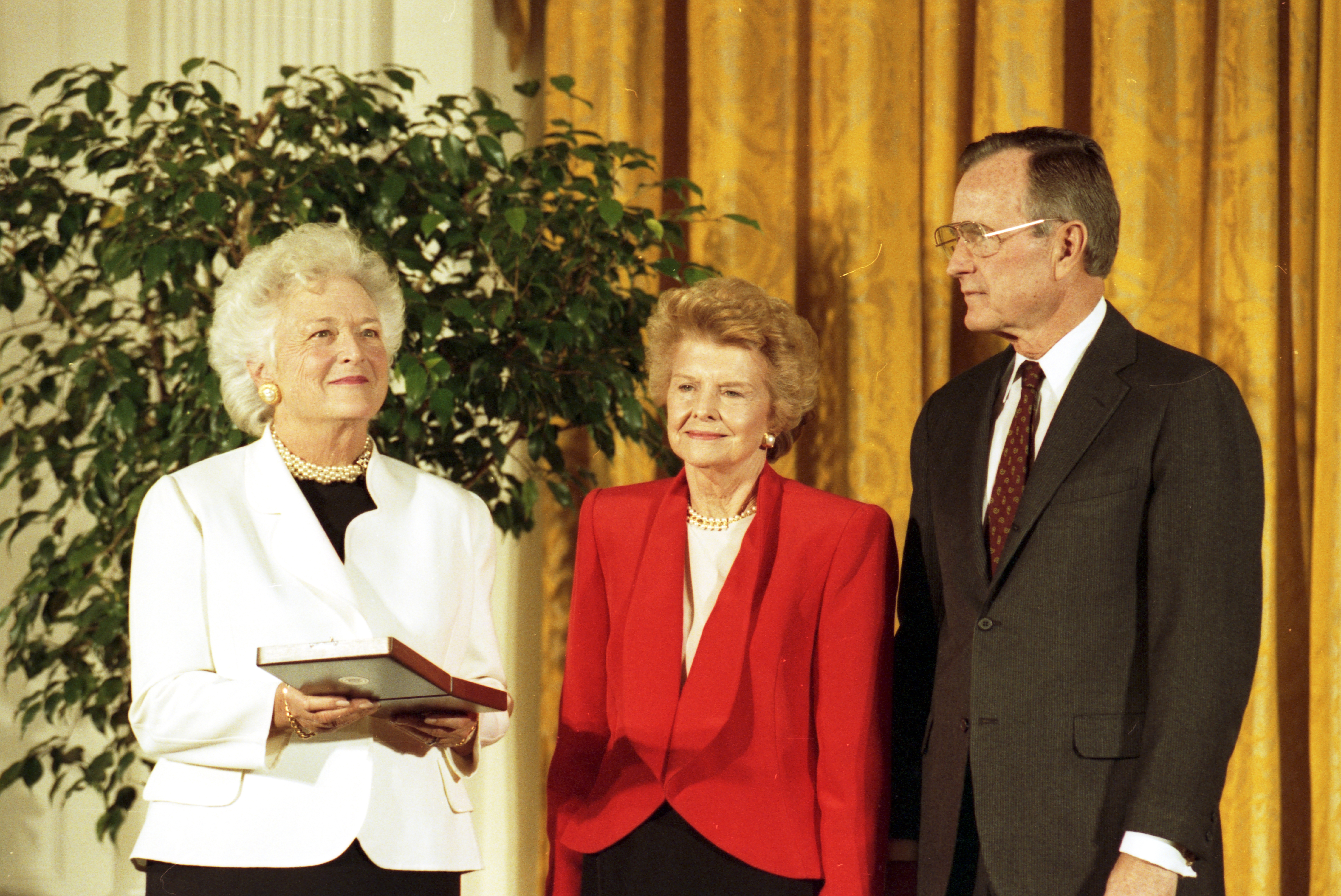 Former First Lady Betty Ford receives the nation's highest honor, the Presidential Medal of Freedom, from President George H. W. Bush. Holding the medal is First Lady Barbara Bush.